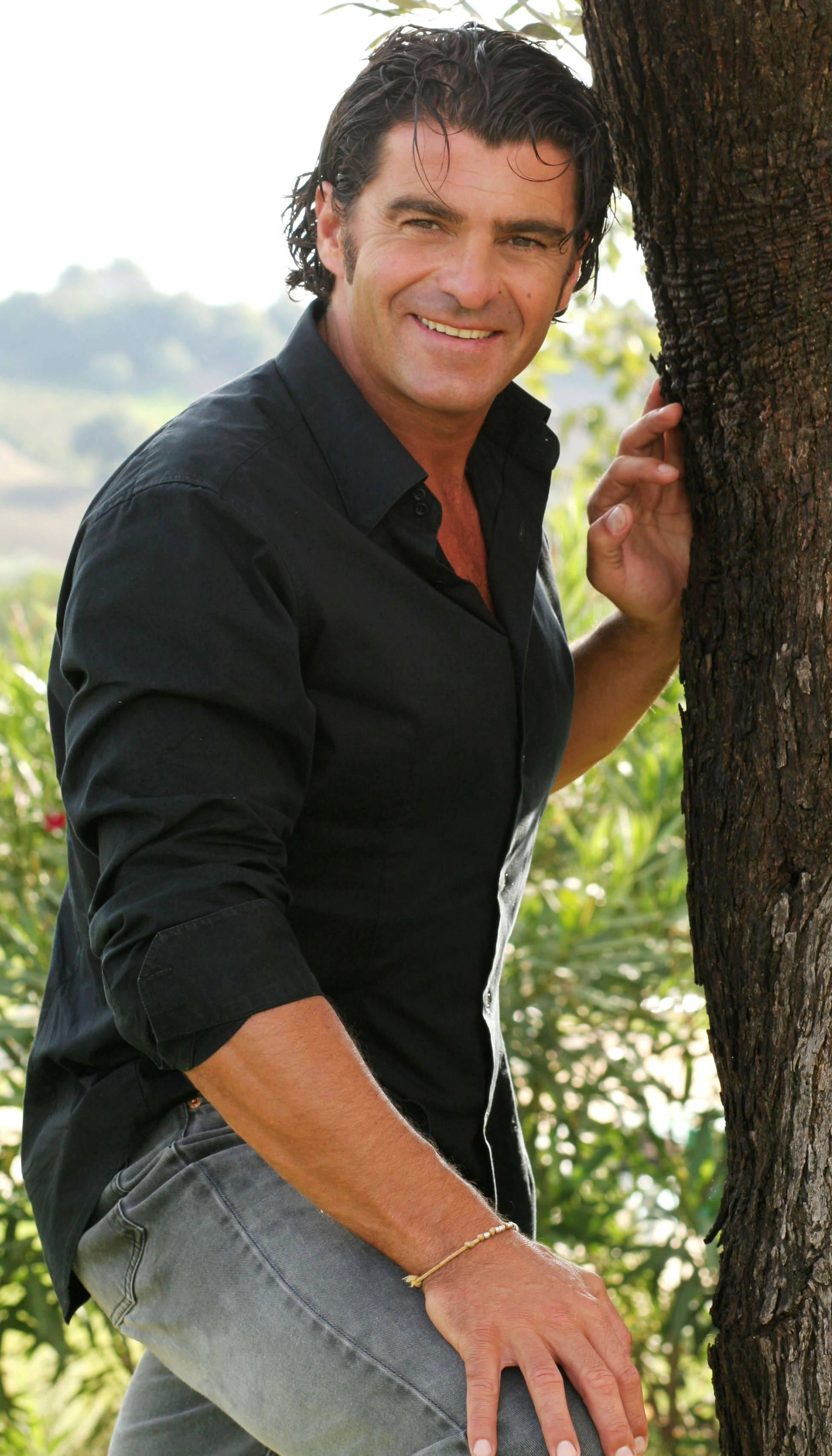 Alberto Tomba